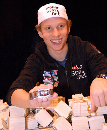 Peter Eastgate, 2008 WSOP World Champion Poker Player